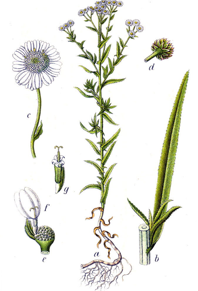 Achillea ptarmica L. Original Caption Deutscher weisser Dorant, Achillea ptarmica